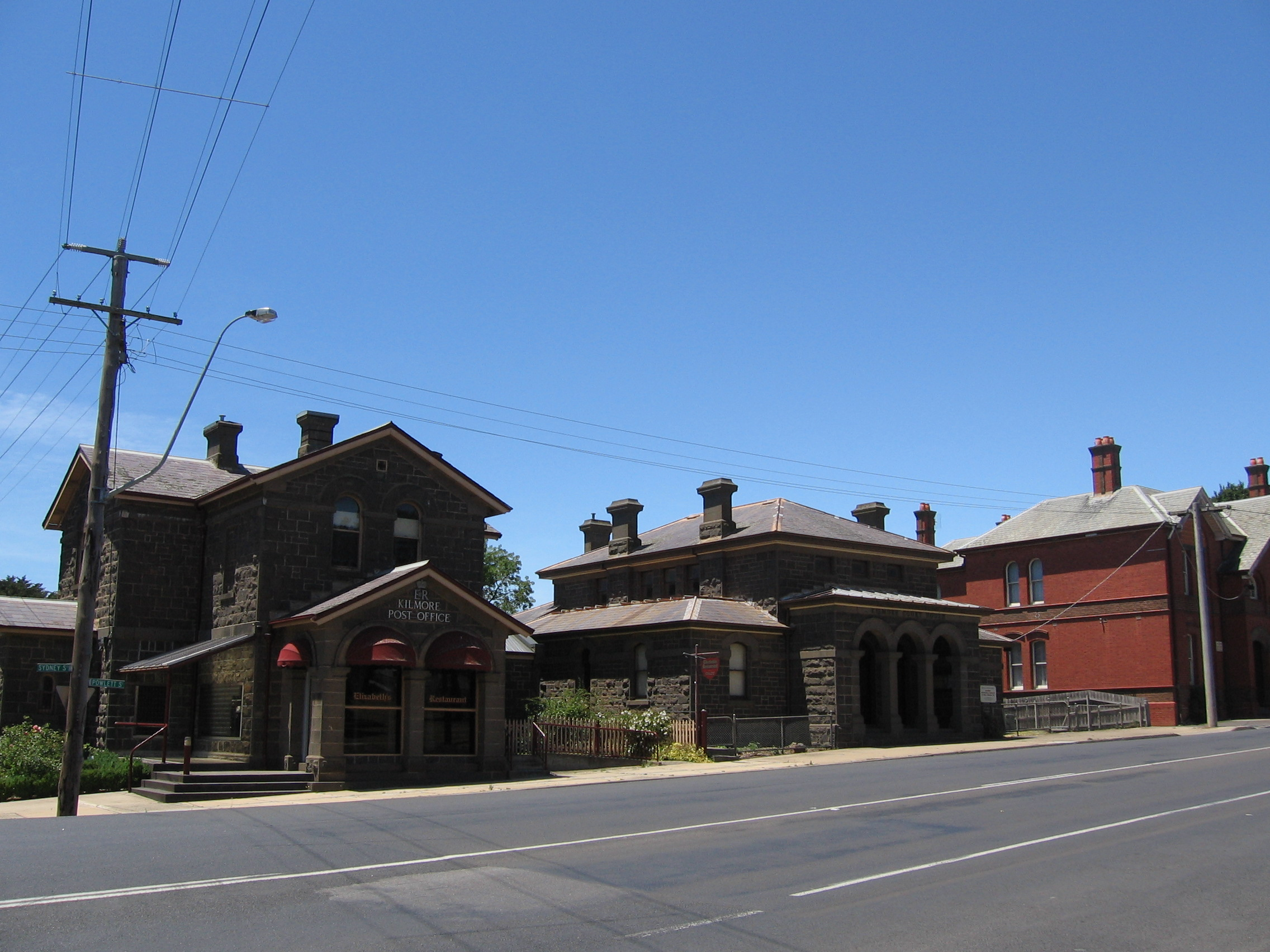 Old Post Office at Kilmore, Victoria.